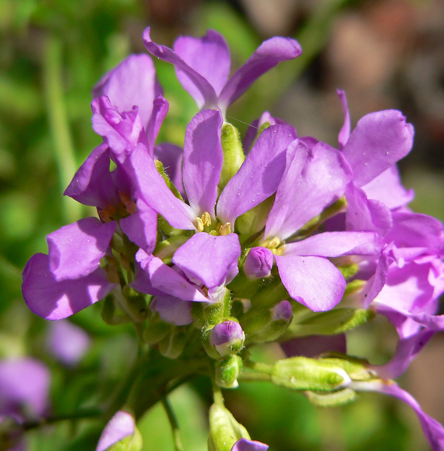 Photo of Arabis blepharophylla at the Regional Parks Botanic Garden, Berkeley, California